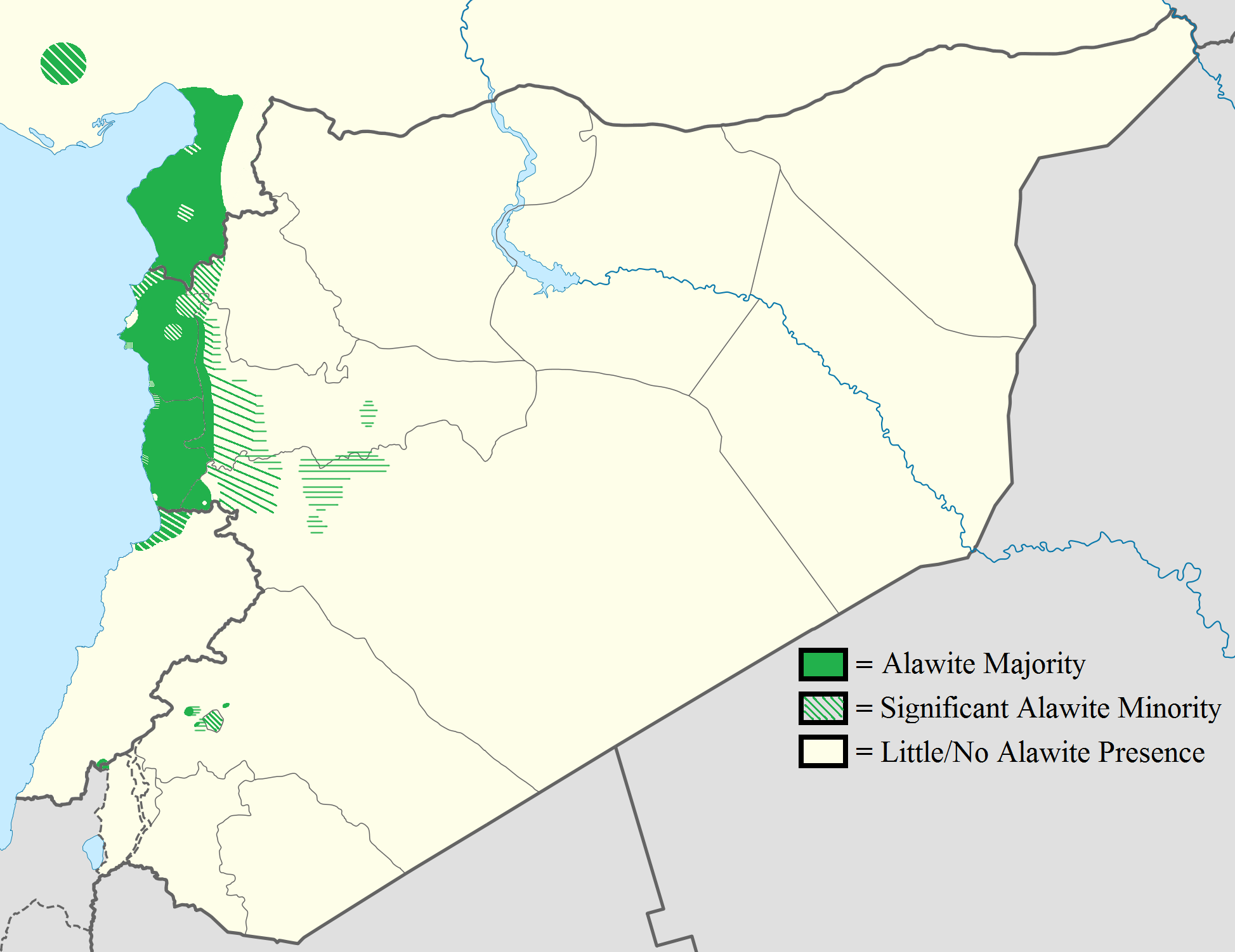 Map showing the presence of Alawites in the three countries where they are found (2012): Turkey, Syria, and Lebanon.